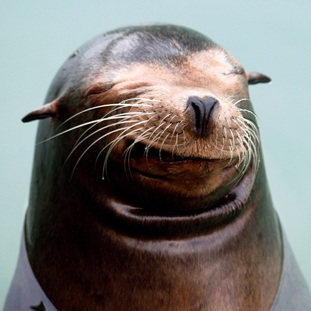 Smiling Sea lion